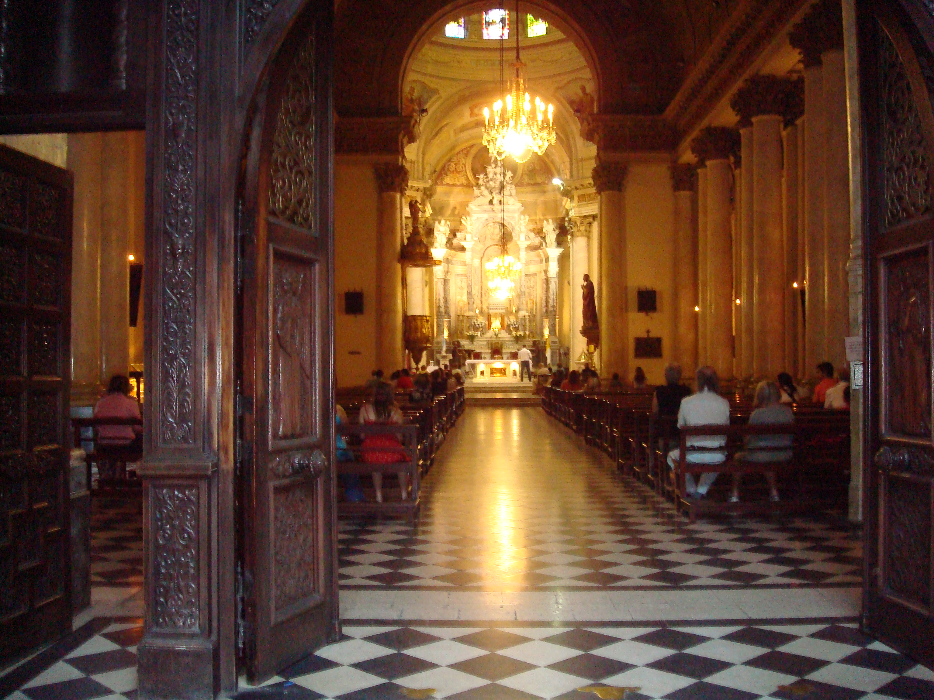 Interior view of the Basilica Cathedral of Our Lady of the Rosary, in Rosario, Argentina. The Cathedral is part of the historical downtown. It is located on Buenos Aires St., beside the Palacio de los Leones (the town hall) and a few hundred metres from the National Flag Memorial on the Paraná River.